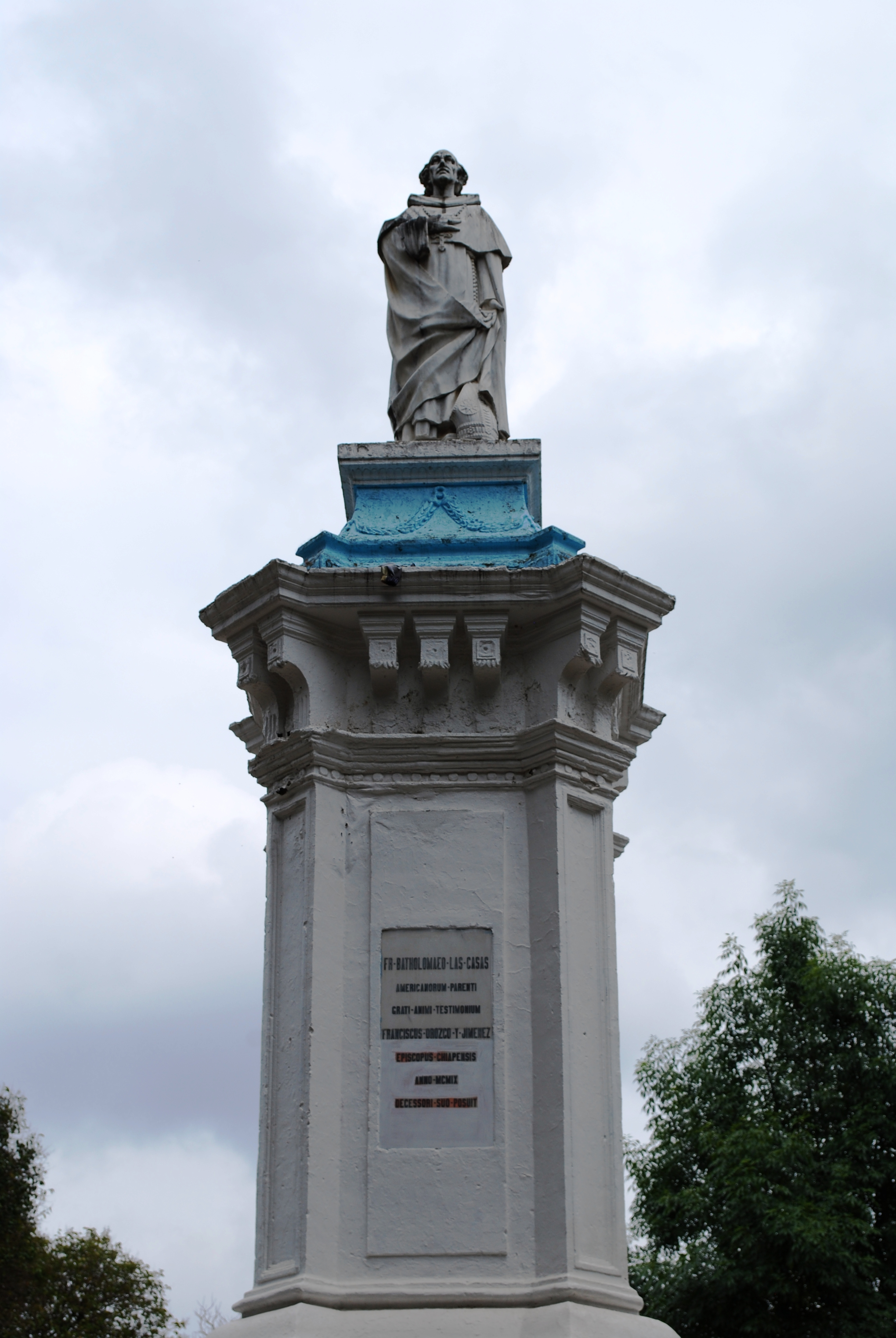 Statue of Bartolome de las Casas in a plaza in San Cristobal de las Casas, Chiapas, Mexico